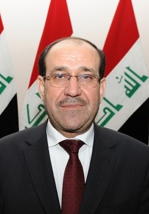 Nouri al-Maliki